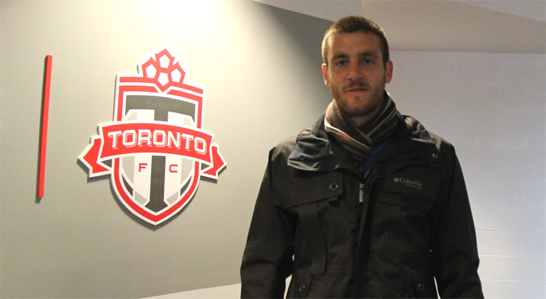 Miloš Kocić after morning practice on April 24, 2012.This photo was used in the following places